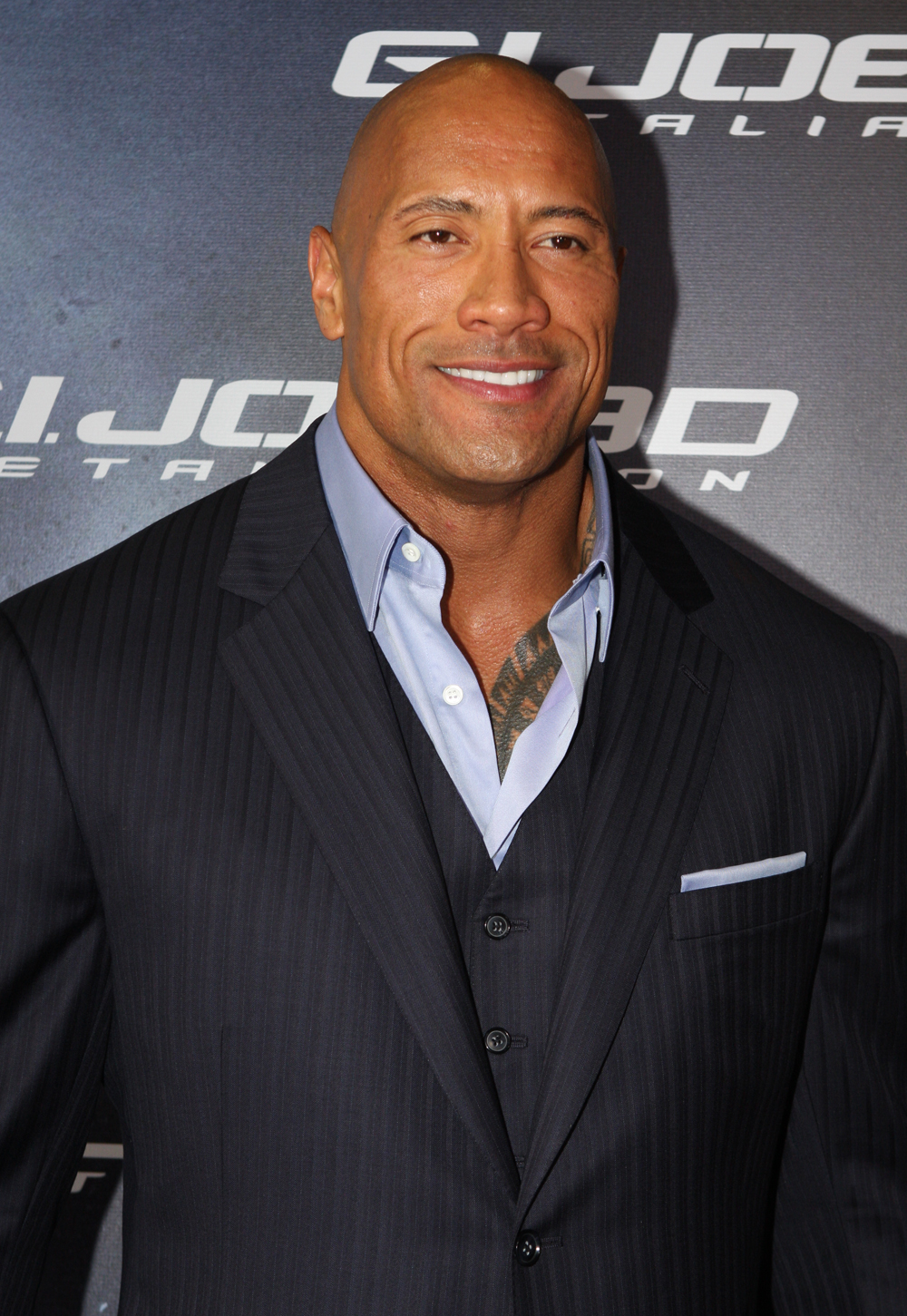 Dwayne Johnson aka 'The Rock' at the G.I. JOE: RETALIATION red carpet movie premiere, Event Cinemas, Sydney, Australia - 14th March 2013